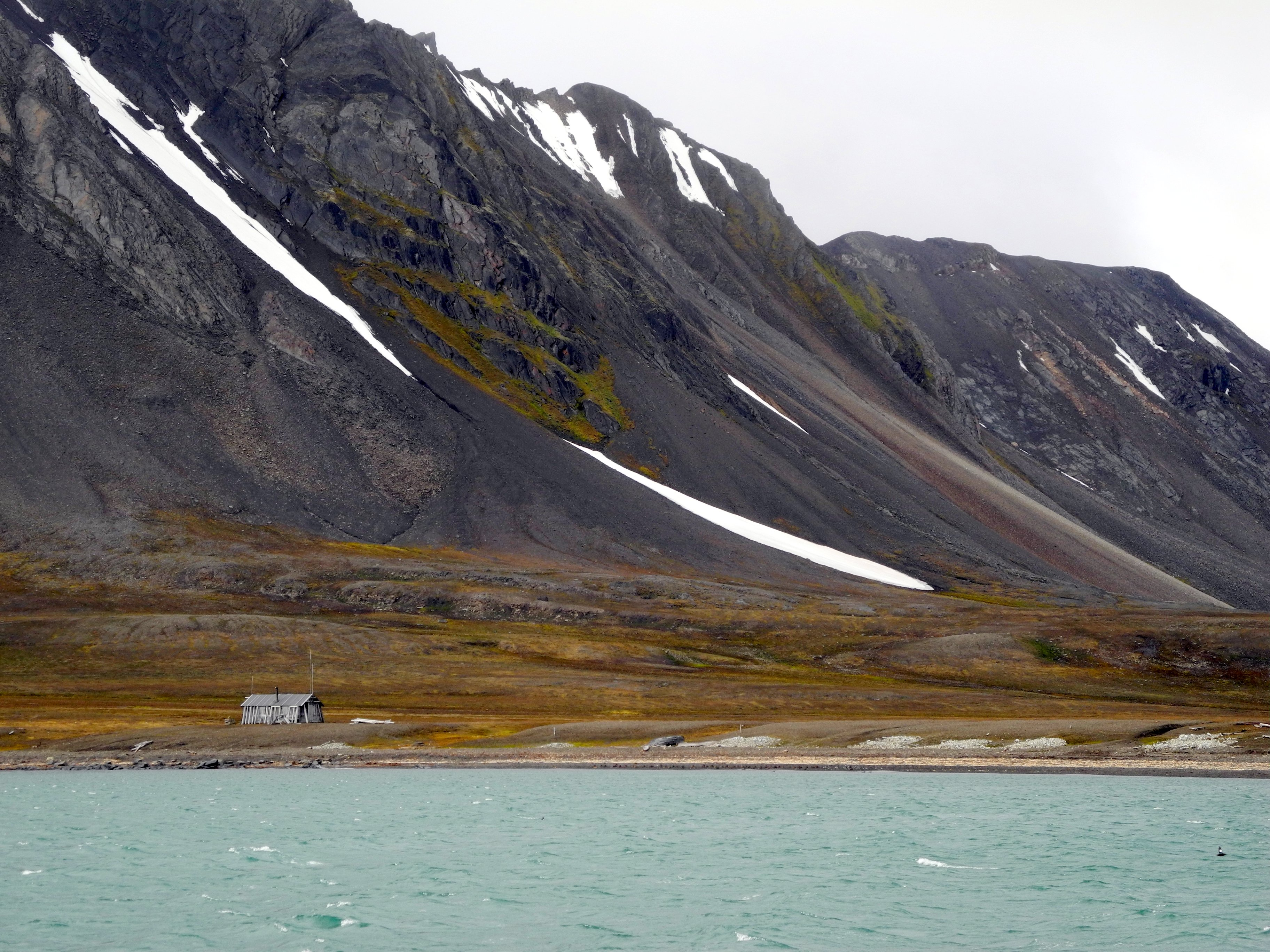 Whaling station with cabin Bamsebu at Van Keulenfjorden. The mountain is Aldegondaberget.